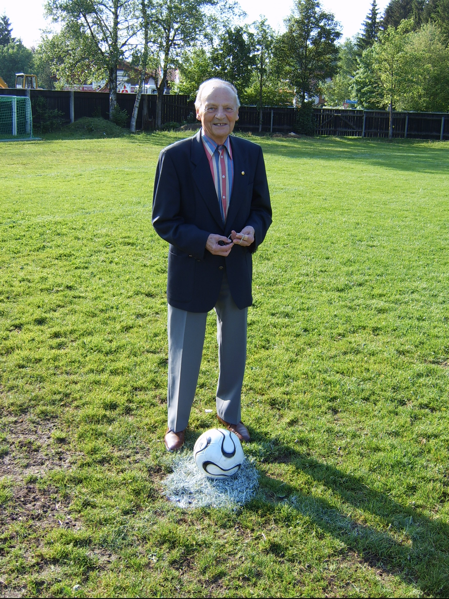 Karl Wald, german association football referee. Inventor of the penalty shootout.